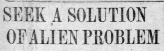 Chicago Tribune. March 1907.